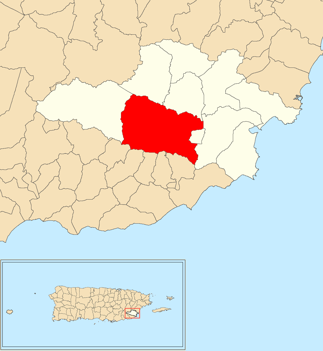 Calabazas, Yabucoa, Puerto Rico locator map